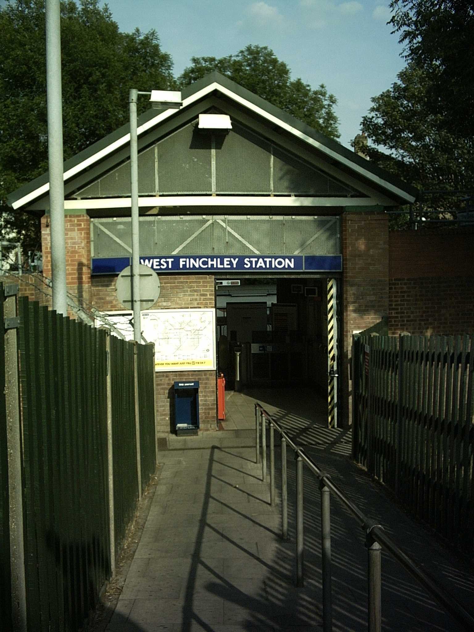 Station entrance; taken by me, Fri 21 July 2006. Londoneye 11:49, 11 August 2006 (UTC)